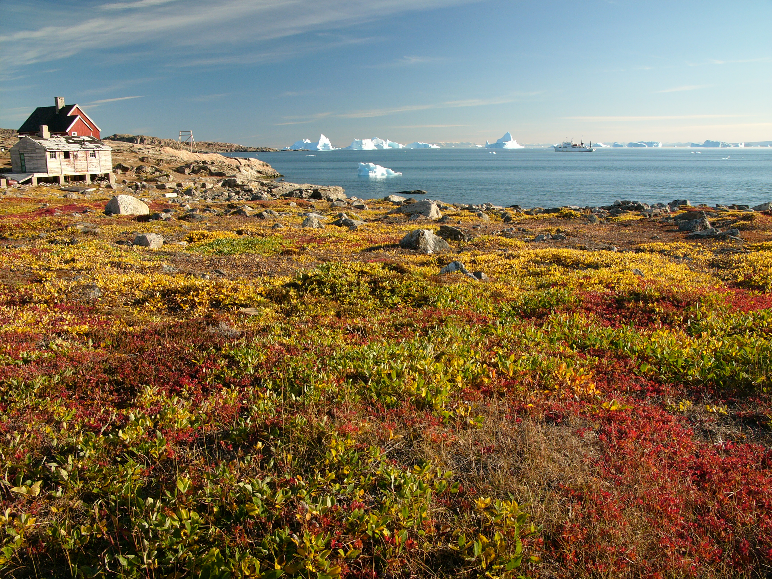 Sydkap in Scoresby Sund, East Greenland; vegetation is mostly Salix glauca; Russian research vessel MV MULTANOVSKIY in the background.